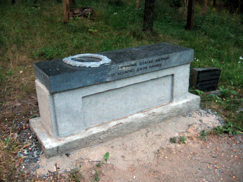 A monument presented by Bill Clinton during visit to Kurapaty forest in 1994